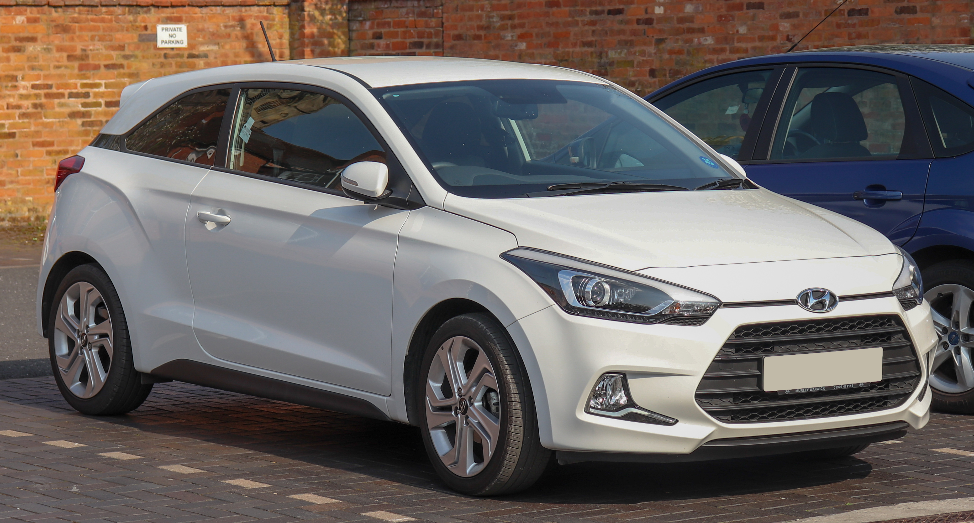 2017 Hyundai I20 Sport NAV MPi Coupe 1.25 Front Taken in Warwick